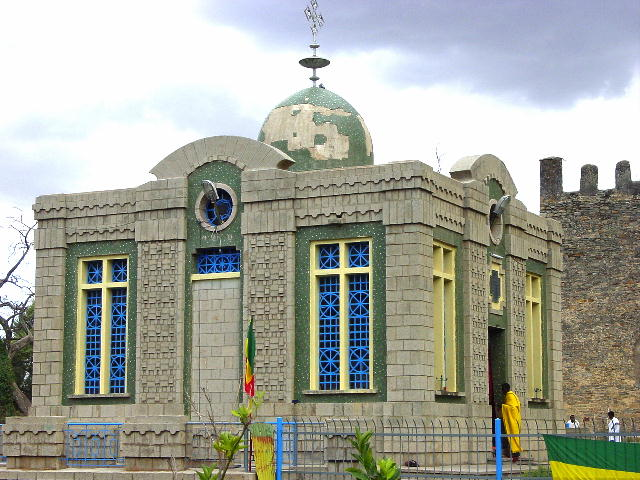 Ethiopian legend says that the Ark of the Covenant is kept here. Within the Ark -the 10 Commandments given to Moses by God. No one is allowed inside except one priest who resides in the building and keeps watch over the Ark. Location: Ethiopia.